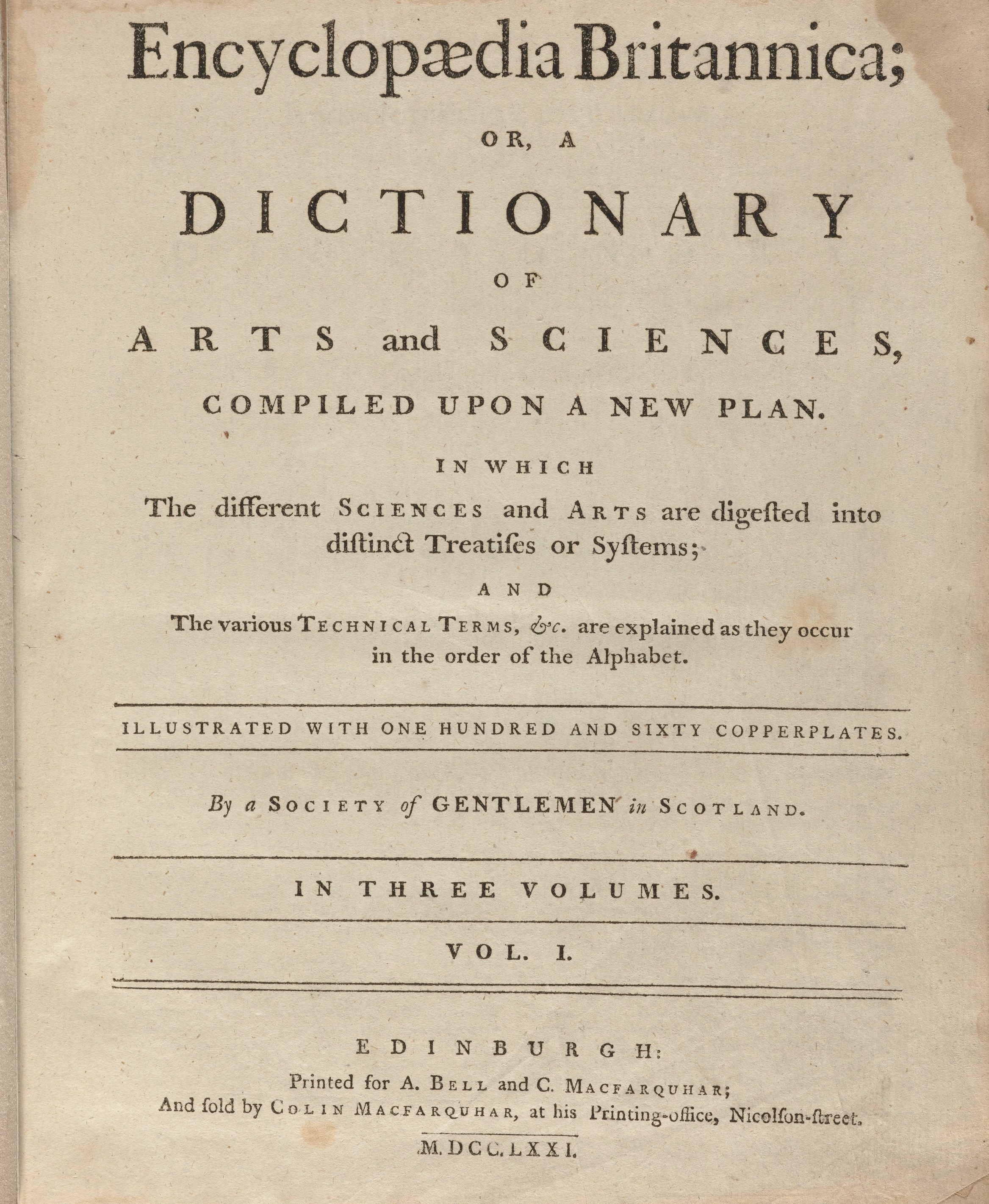 Title page for first edition (1771) of Encyclopaedia Britannica, or, A Dictionary of Arts and Sciences. Typ 705.71.363, Houghton Library, Harvard University